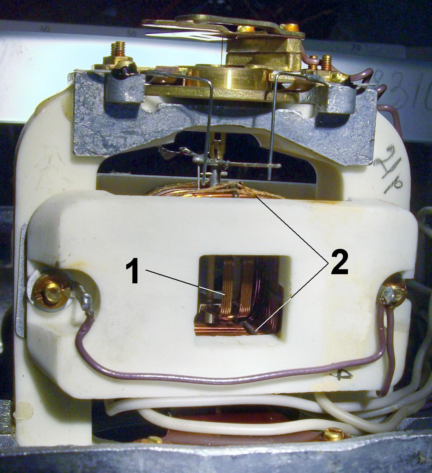 wattmeter moving coil (1) instrument with field coil (2) without iron core